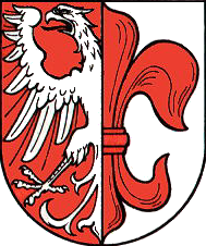 Coat of Arms of Wusterhausen/Dosse